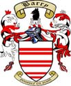 Coat of arms of the DeBarry family: Argent, three bars gemelles gules; crest: Out of a castle argent a wolf's head sable